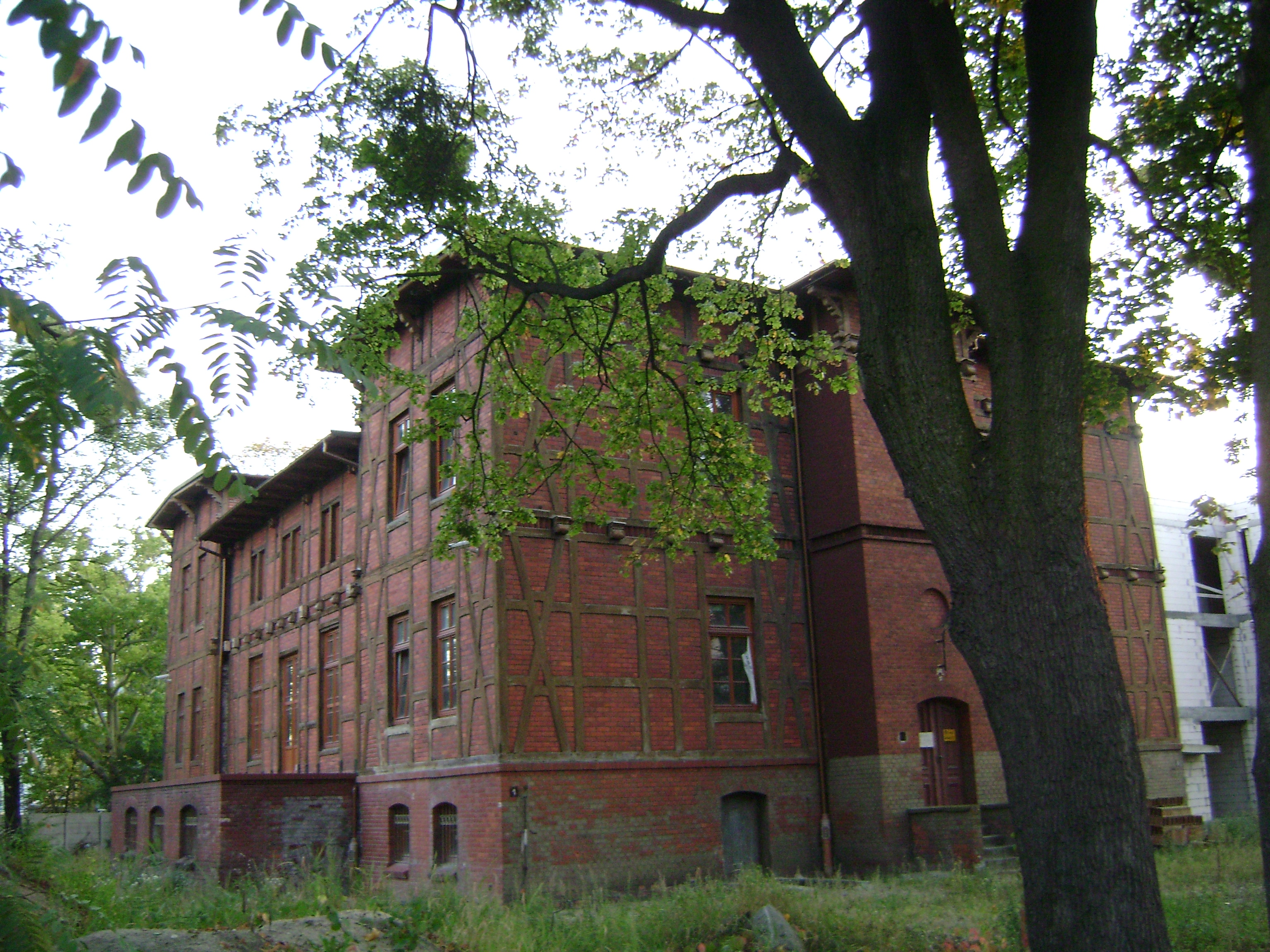 barracks, 33 Sienkiewicza Street, Toruń, Poland